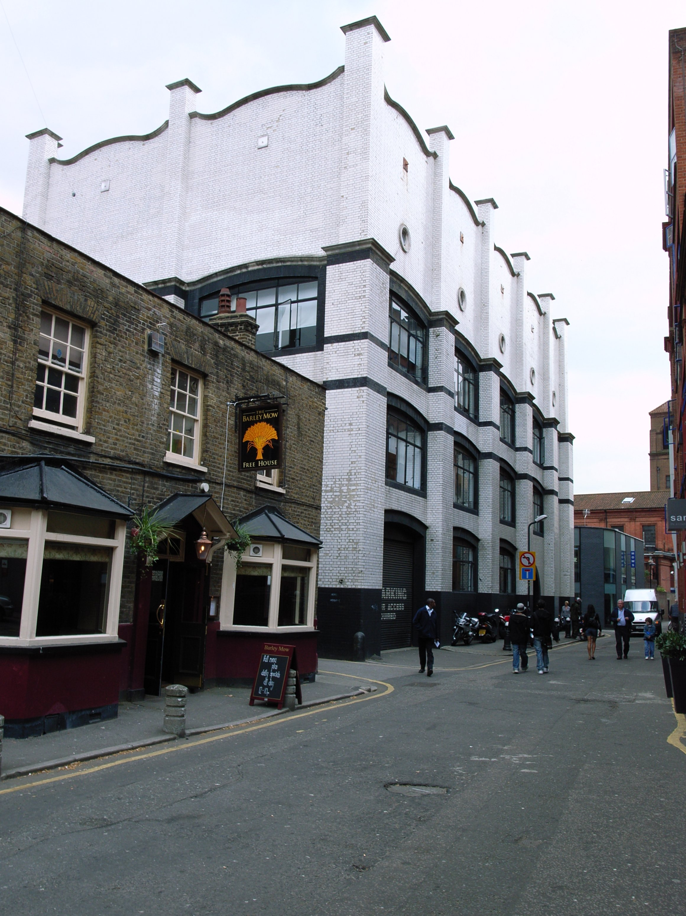 Voysey House (previously Sandersons' Wallpaper Factory) 1902-3, Barley Mow Passage, London W4.